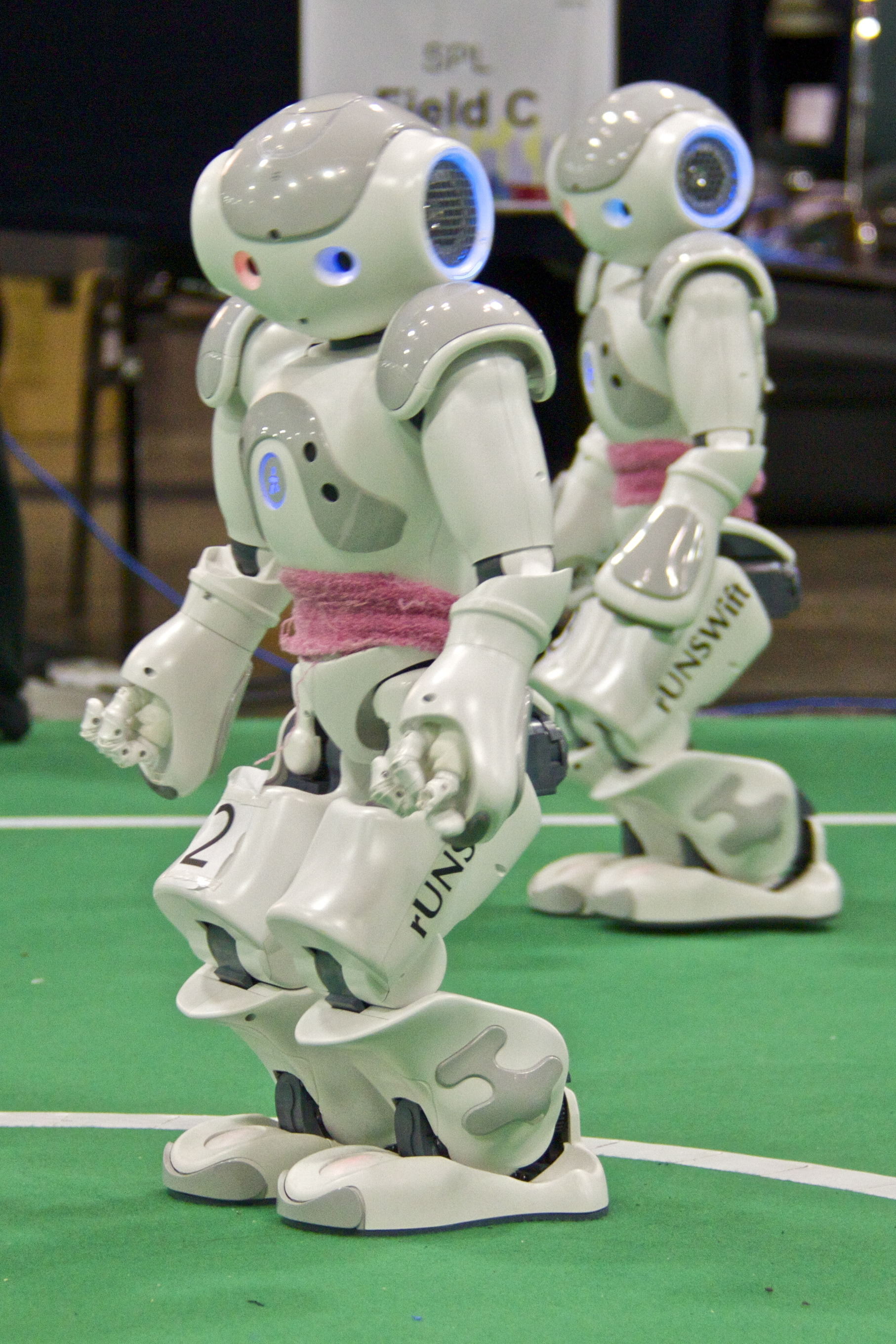 RoboCup Standard Platform League rUNSWift Naos